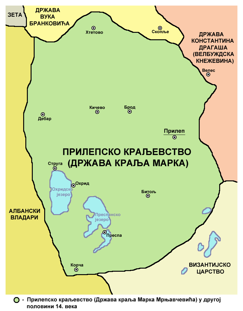 Realm of King Marko (1371-1395) - one of the states that emerged from the collapse of the Serbian Empire in the late 14th century.